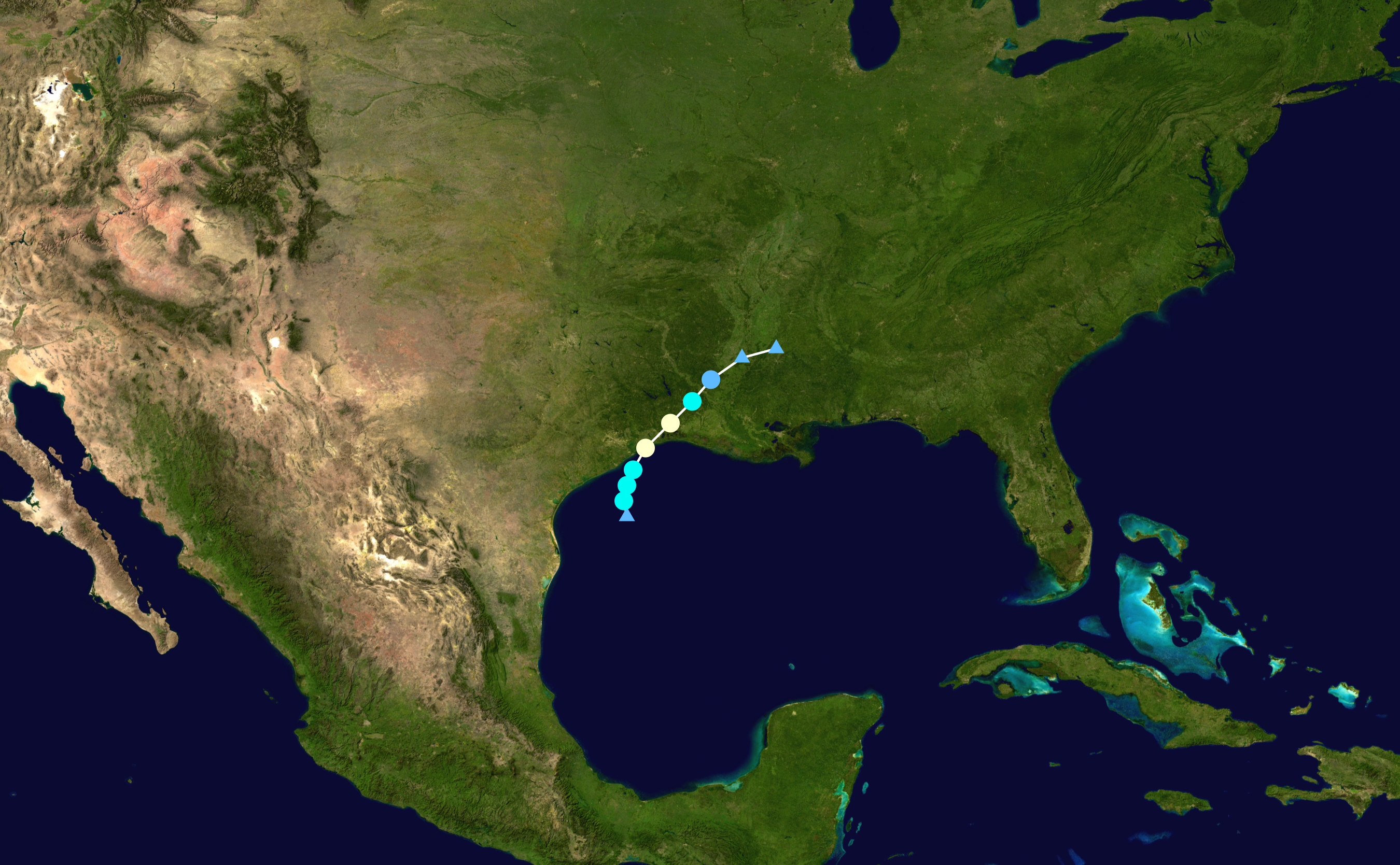 Track map of Hurricane Humberto of the 2007 Atlantic hurricane season. The points show the location of the storm at 6-hour intervals. The colour represents the storm's maximum sustained wind speeds as classified in the Saffir–Simpson scale (see below), and the shape of the data points represent the nature of the storm, according to the legend below. Saffir–Simpson scale Tropical depression≤38 mph≤62 km/h Category 3111–129 mph178–208 km/h Tropical storm39–73 mph63–118 km/h Category 4130–156 mph209–251 km/h Category 174–95 mph119–153 km/h Category 5≥157 mph≥252 km/h Category 296–110 mph154–177 km/h Unknown Storm type Tropical cyclone Subtropical cyclone Extratropical cyclone / Remnant low / Tropical disturbance / Monsoon depression